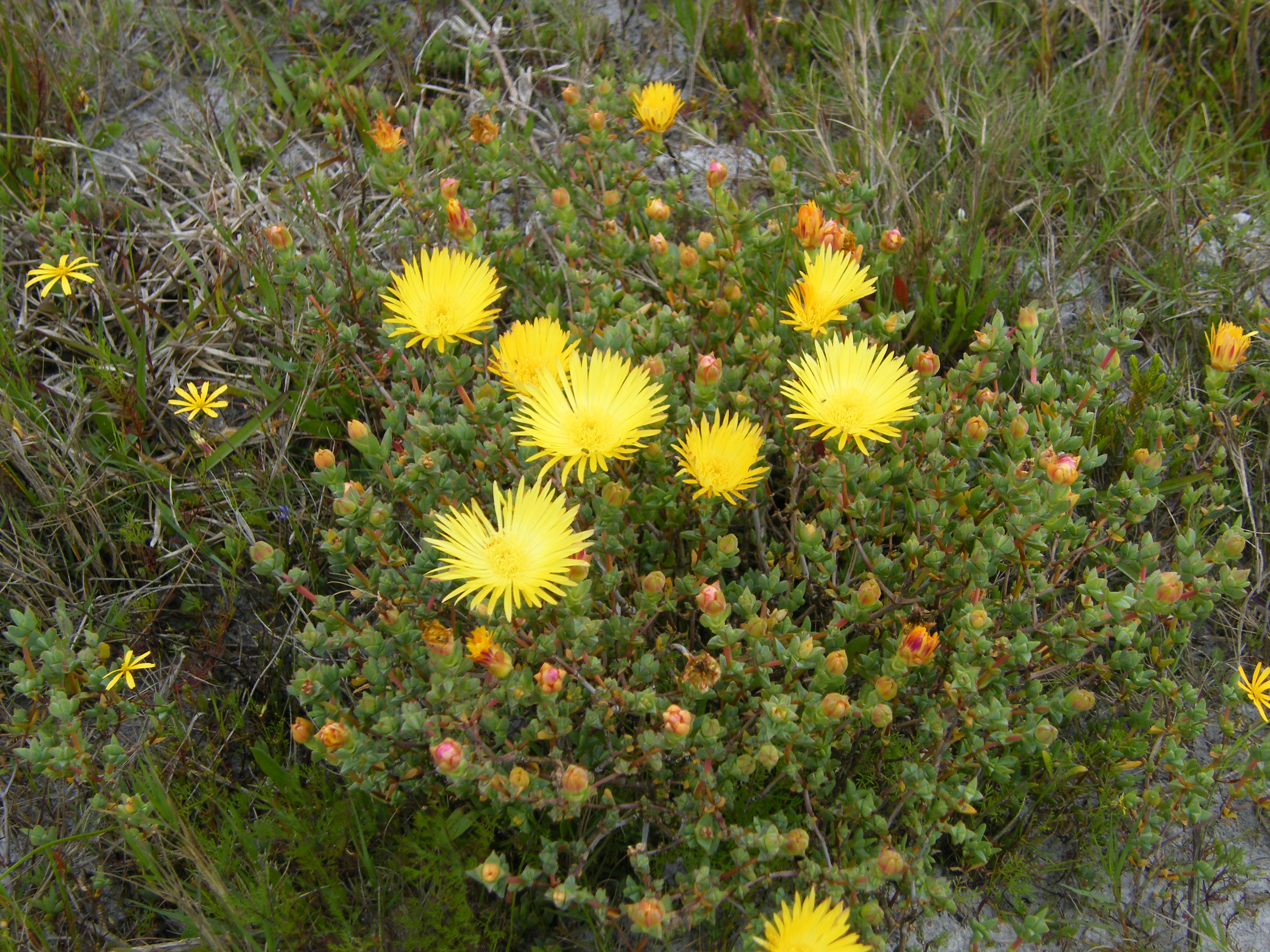 Lampranthus